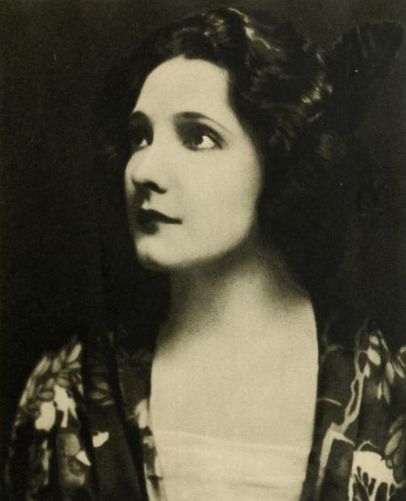 Publicity photo of Mabel Ballin from Stars of the Photoplay